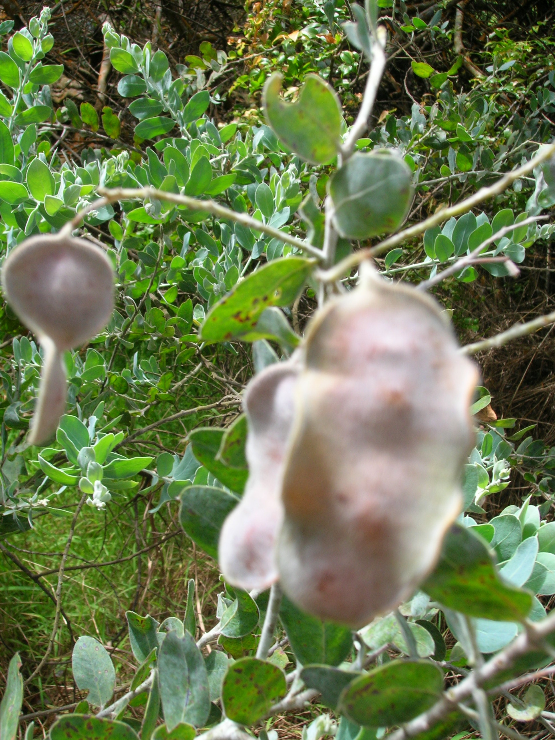 Acacia podalyriifolia (seedpods). Location: Maui, Kula